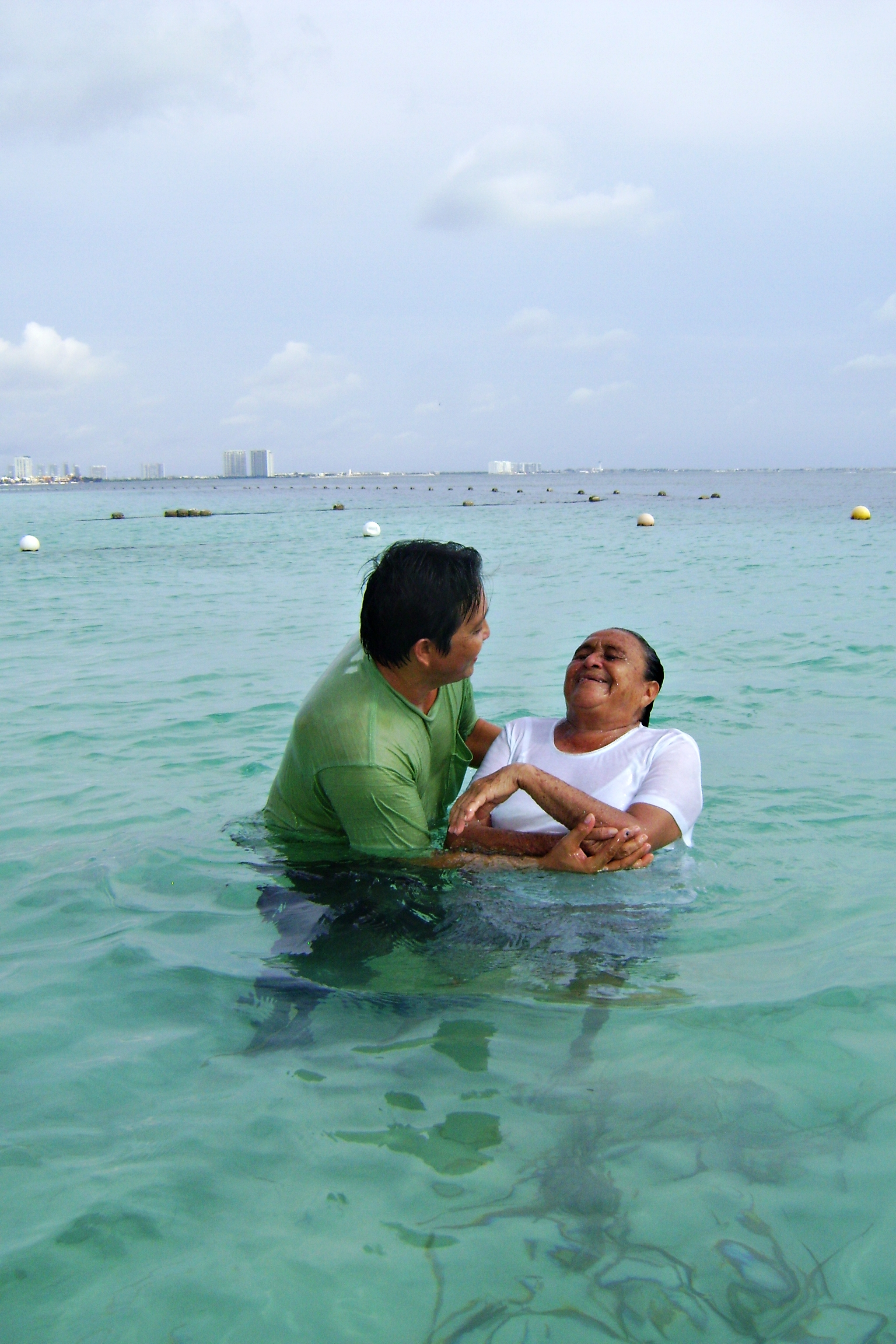 Water baptims of a pentecostal pastor (Assemblies of God) in Cancun's beach.